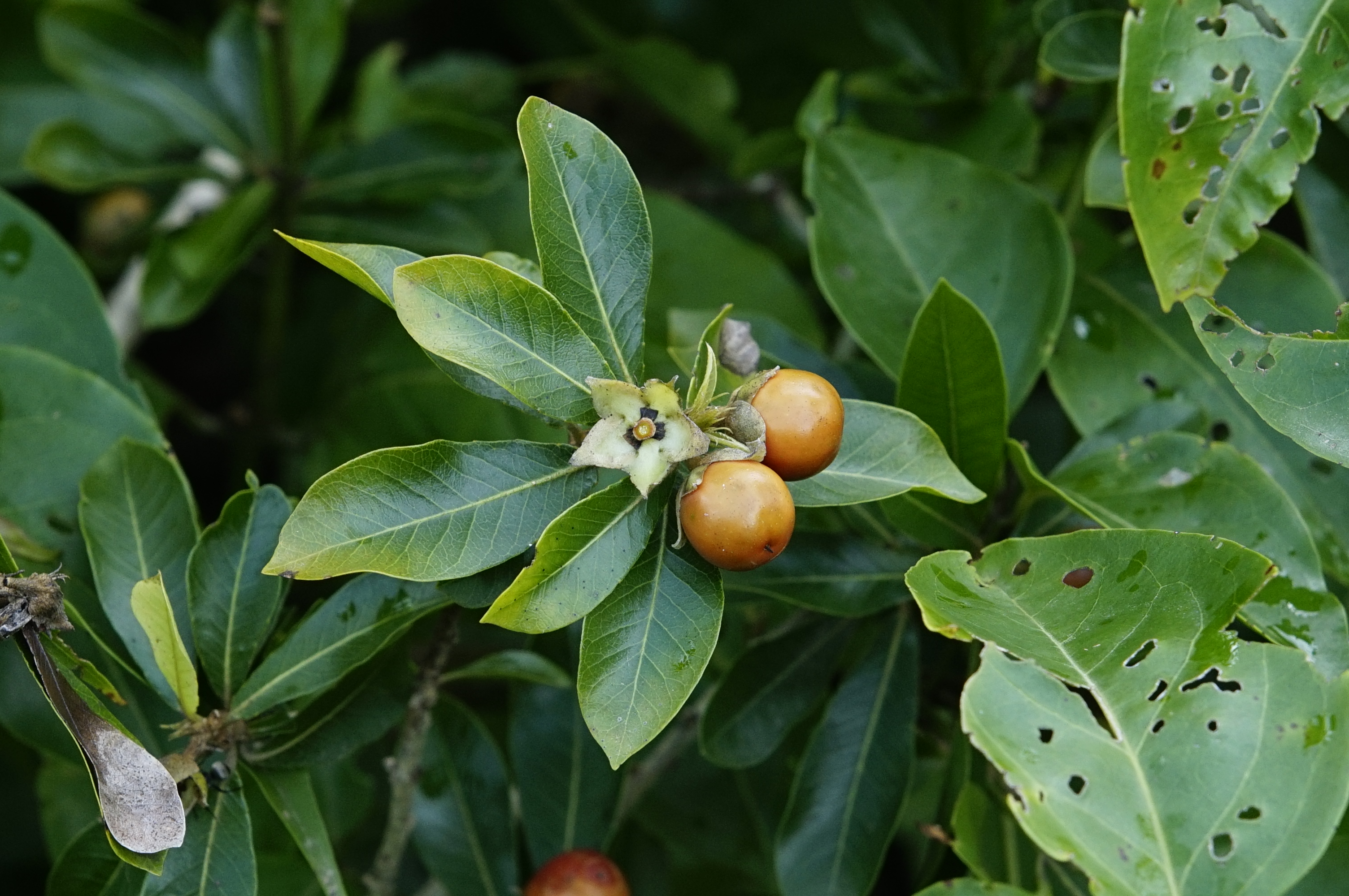 Madayi